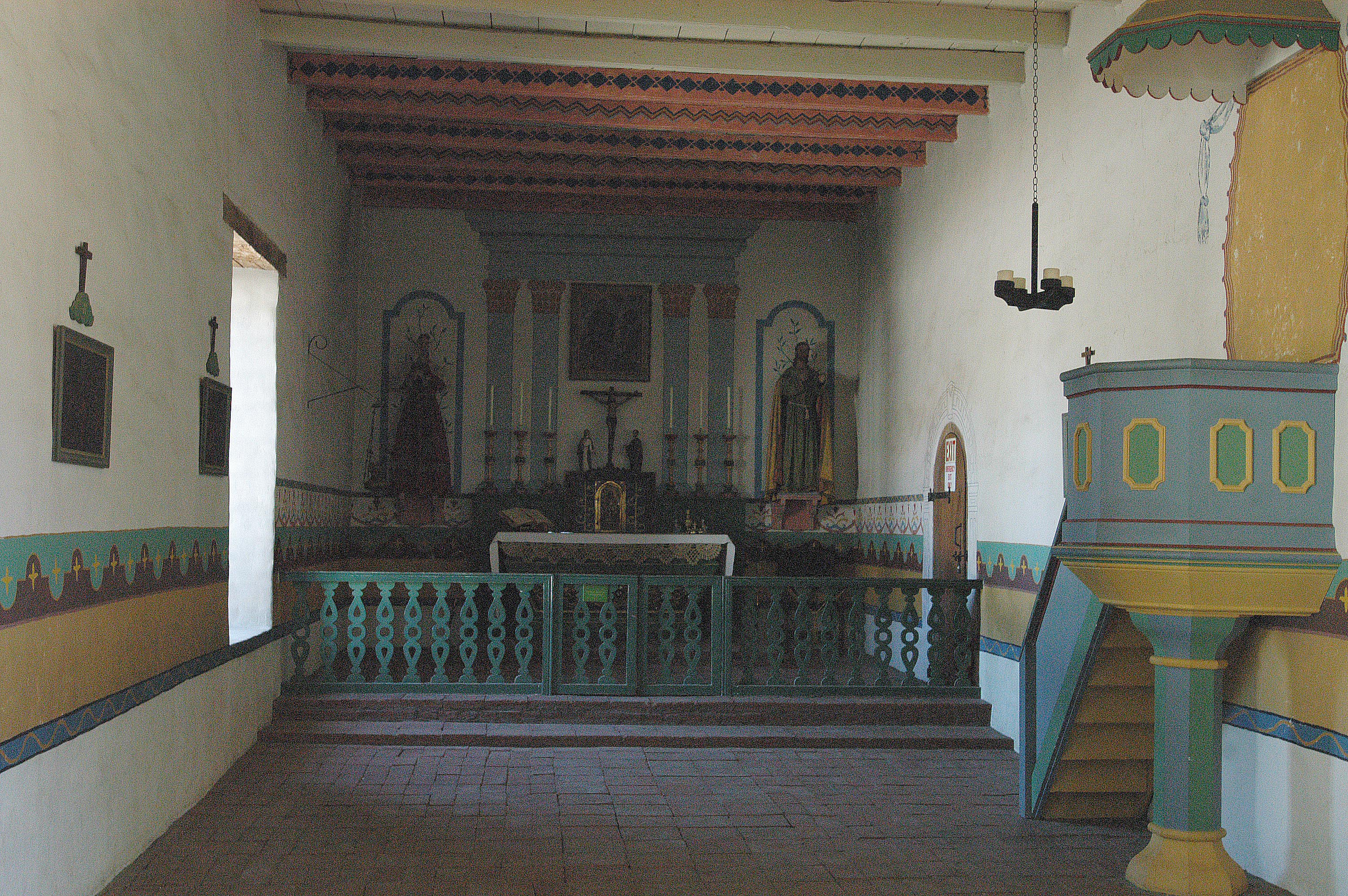 THIS IS THE LAST OF CALIFORNIA’S 21 MISSIONS AND WAS FOUNDED IN 1823 BY A FATHER ALTIMIRA. AFTER 1881 THE CHURCH SOLD THE BUILDINGS WHICH WERE THEN USED IN VARIOUS CAPACITIES UNTIL THE STATE ACQUIRED IT IN 1906.